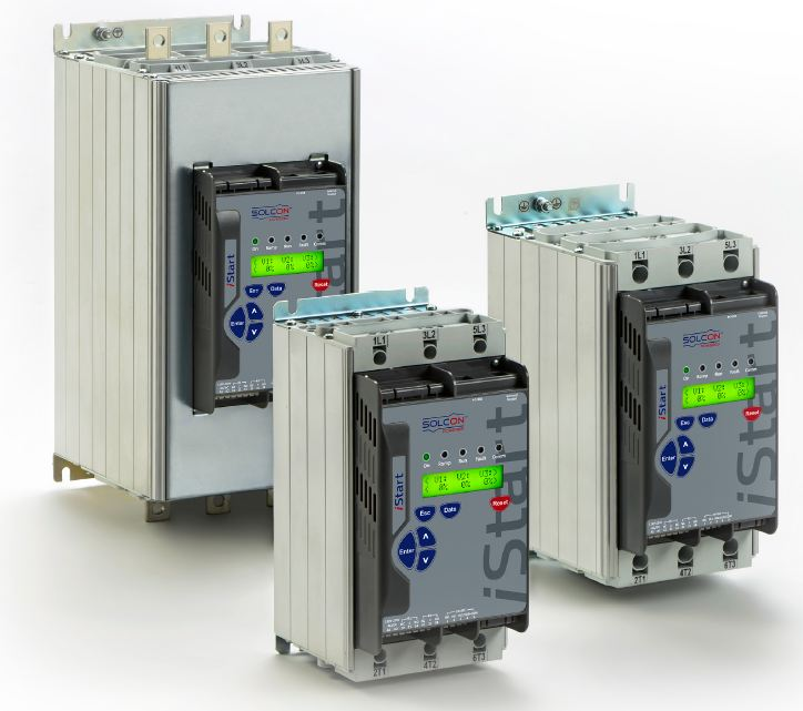 Digital Soft Starters from 0.25kW to 50,000kW or 50mW and from 230VAC to 15,000 Volts AC 15KV.